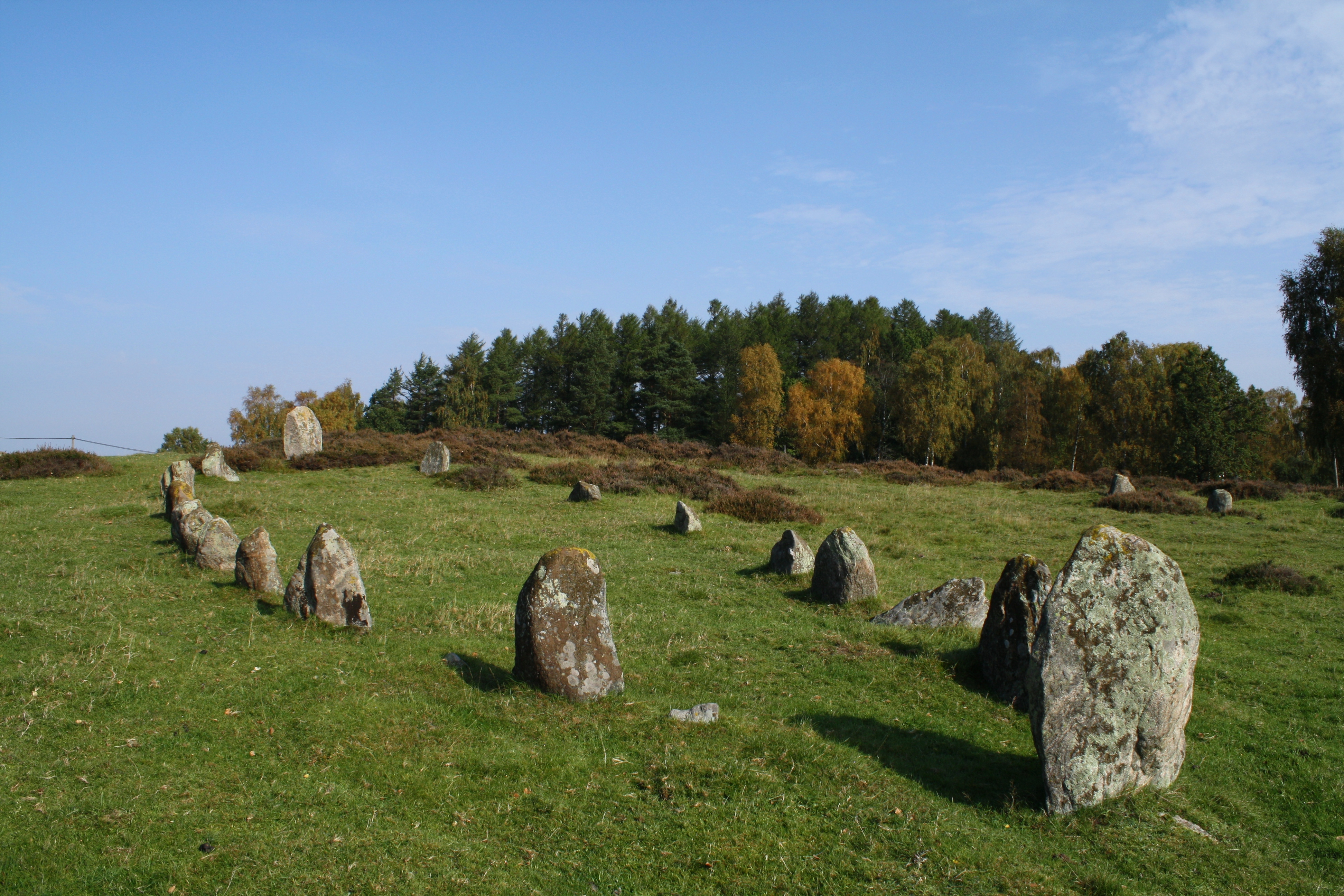 Grave field of Vetteryd, Norra Mellby 1:1, Scania. Ship tumuli from 500-900 A.D.